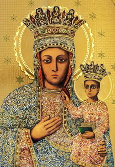 Hoshivskyy icon of Our Lady